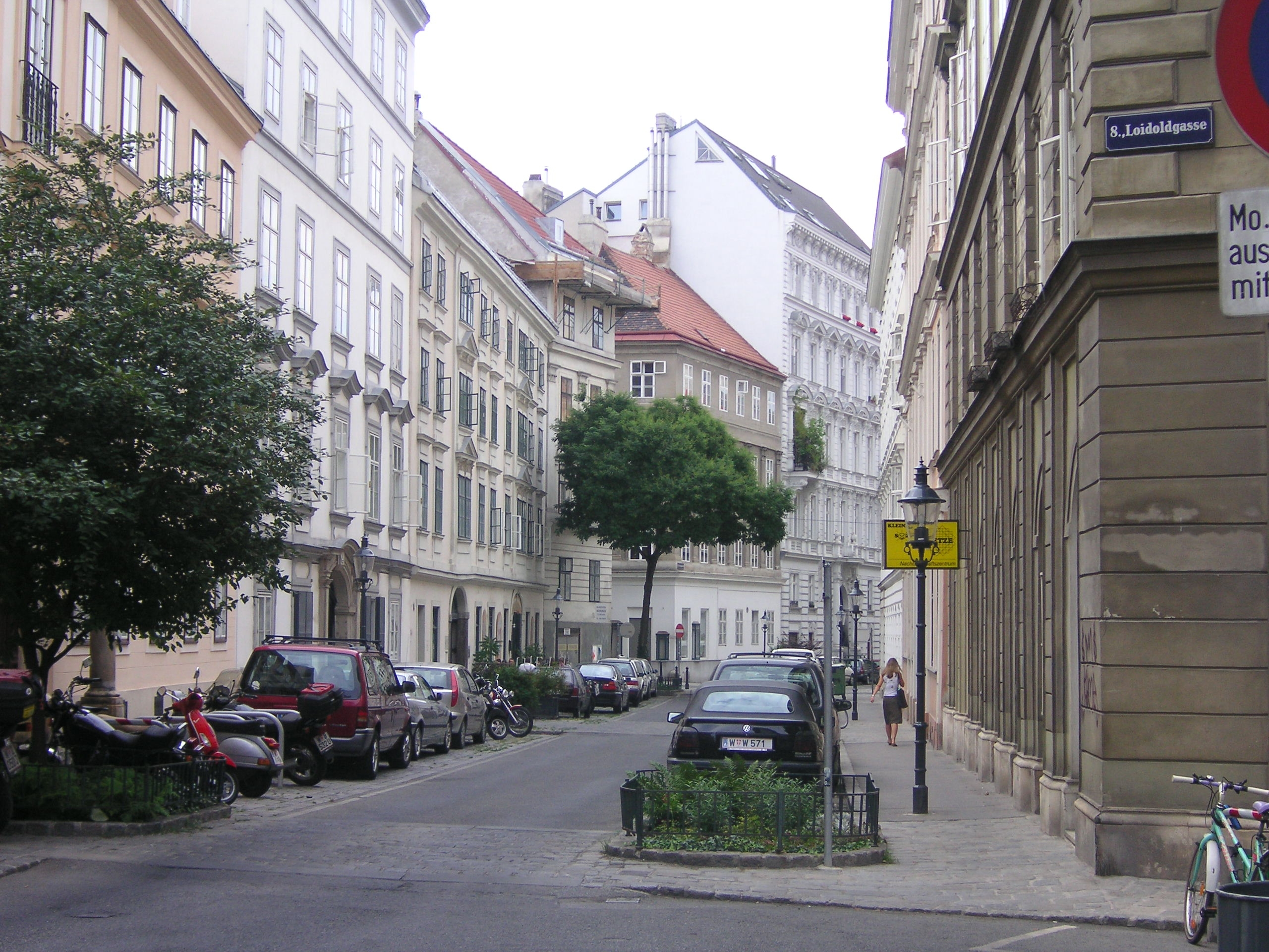 A typical residential area in Josefstadt, Vienna, Austria quite close to the city centre. The street pictured here, Lenaugasse, is named after the poet Nikolaus Lenau. Most of the houses were built in the 19th century. Photo by KF, June 2005.